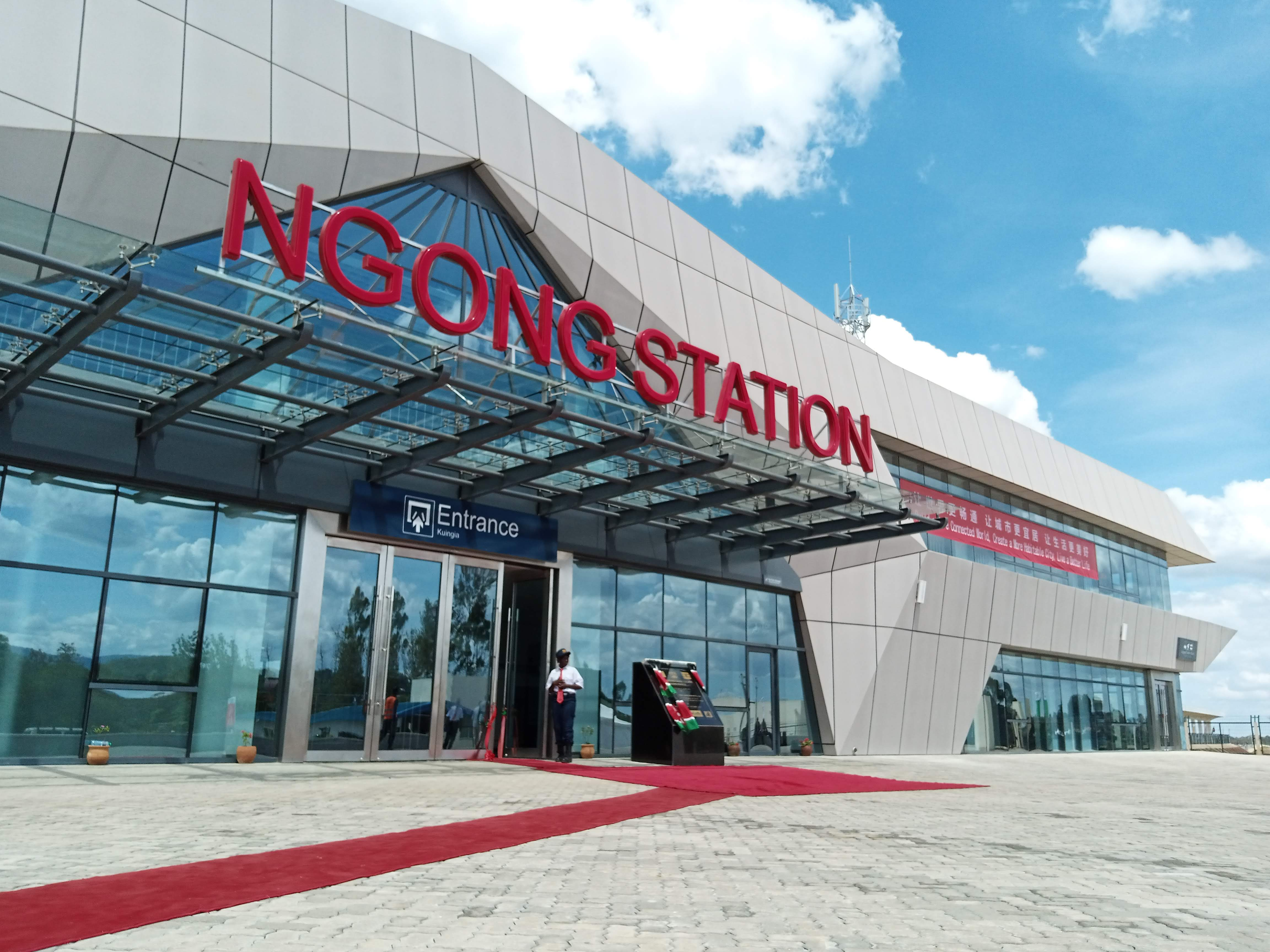 A photo of the exterior facade of Ngong SGR station on the day it was unveiled by Kenya's president, HE Uhuru Kenyatta. This is an image with the theme "Africa on the Move or Transport" from: Kenya